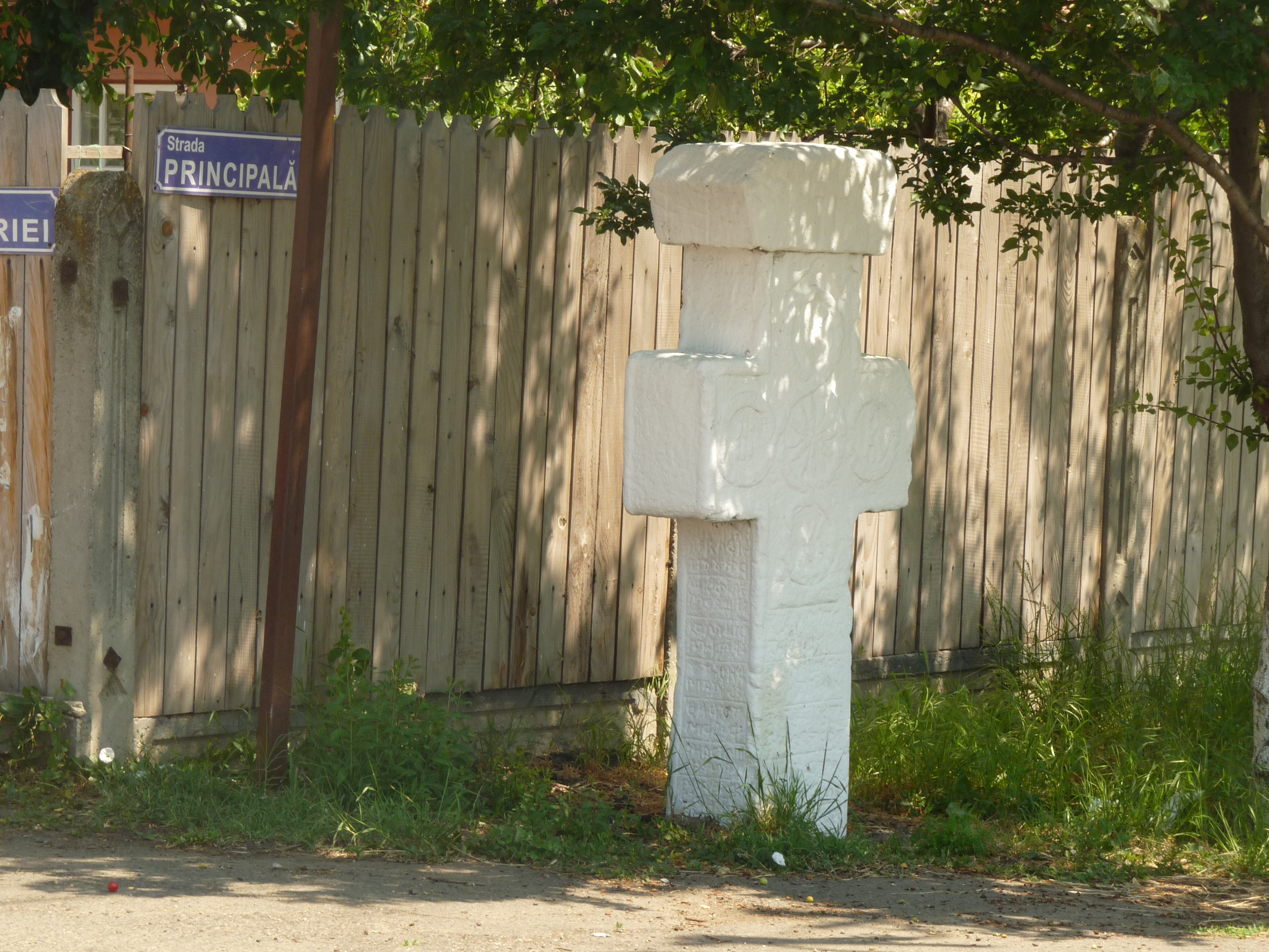 A cross located next to the town hall of Săhăteni, Buzău County, Romania, where people were killed during World War II